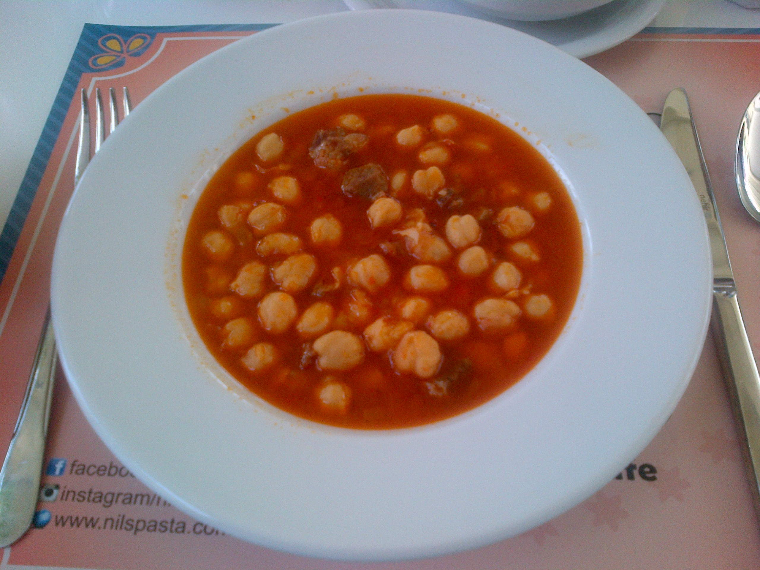 Nohut yahnisi or chickpea stew, from the Turkish cuisine.